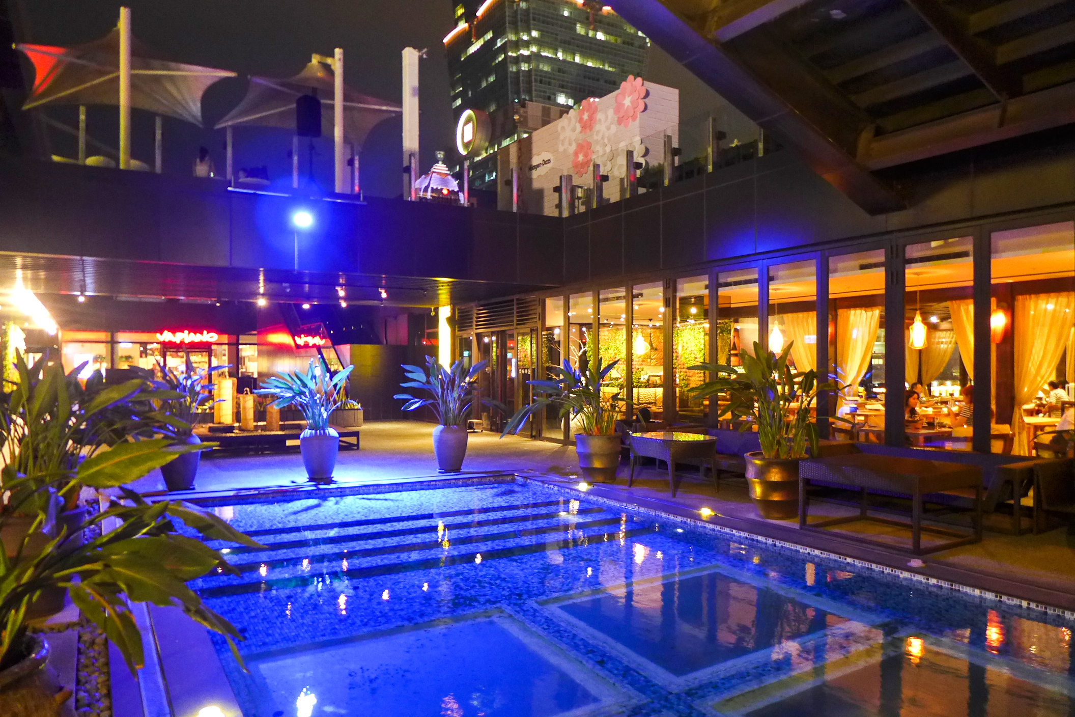 ATT 4 FUN Level 10 outdoor terrance.